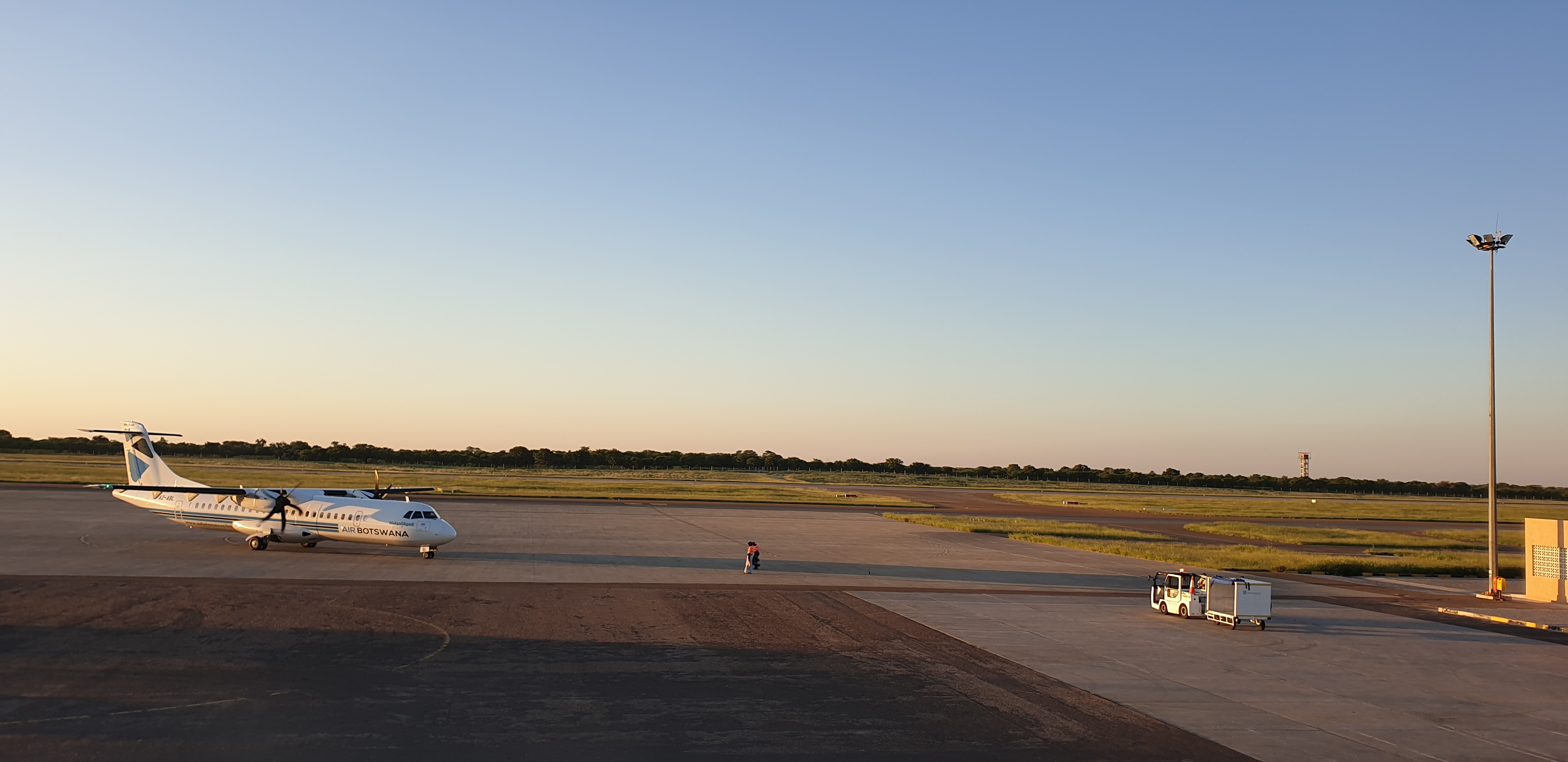 Tourist hub of Maun This is an image with the theme "Africa on the Move or Transport" from: Botswana